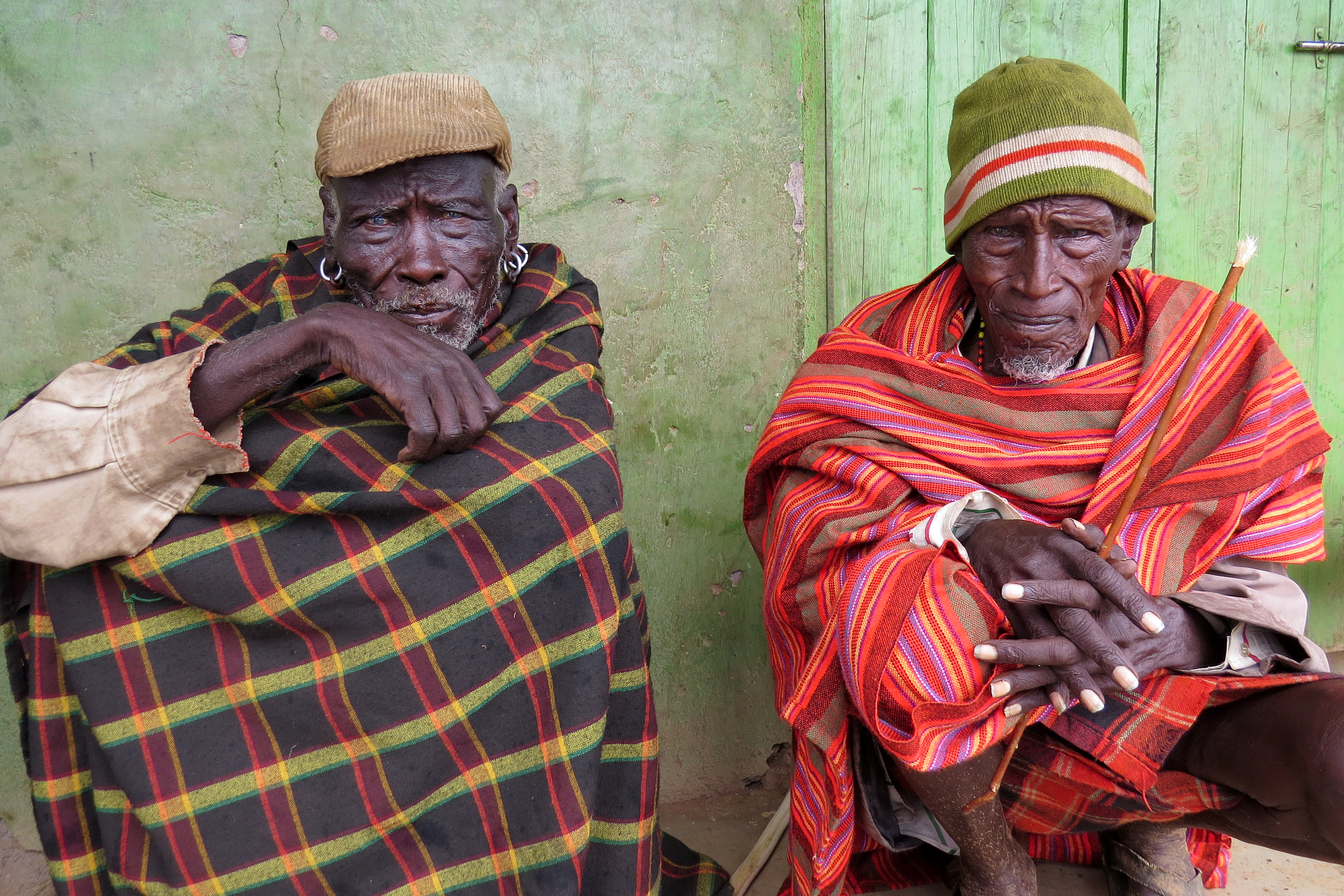 After a long drought, two herders of the Turkana tribe take shelter from a rainstorm in Kenya's northern arid lands. This is an image of "African people at work" from Kenya